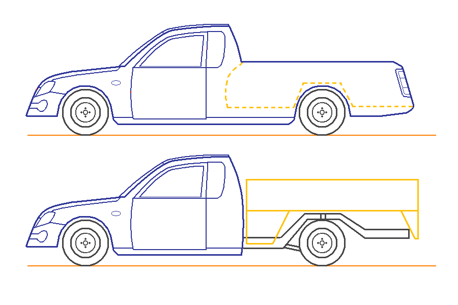 Image shows the modern coupe utility variants produced in Australia.